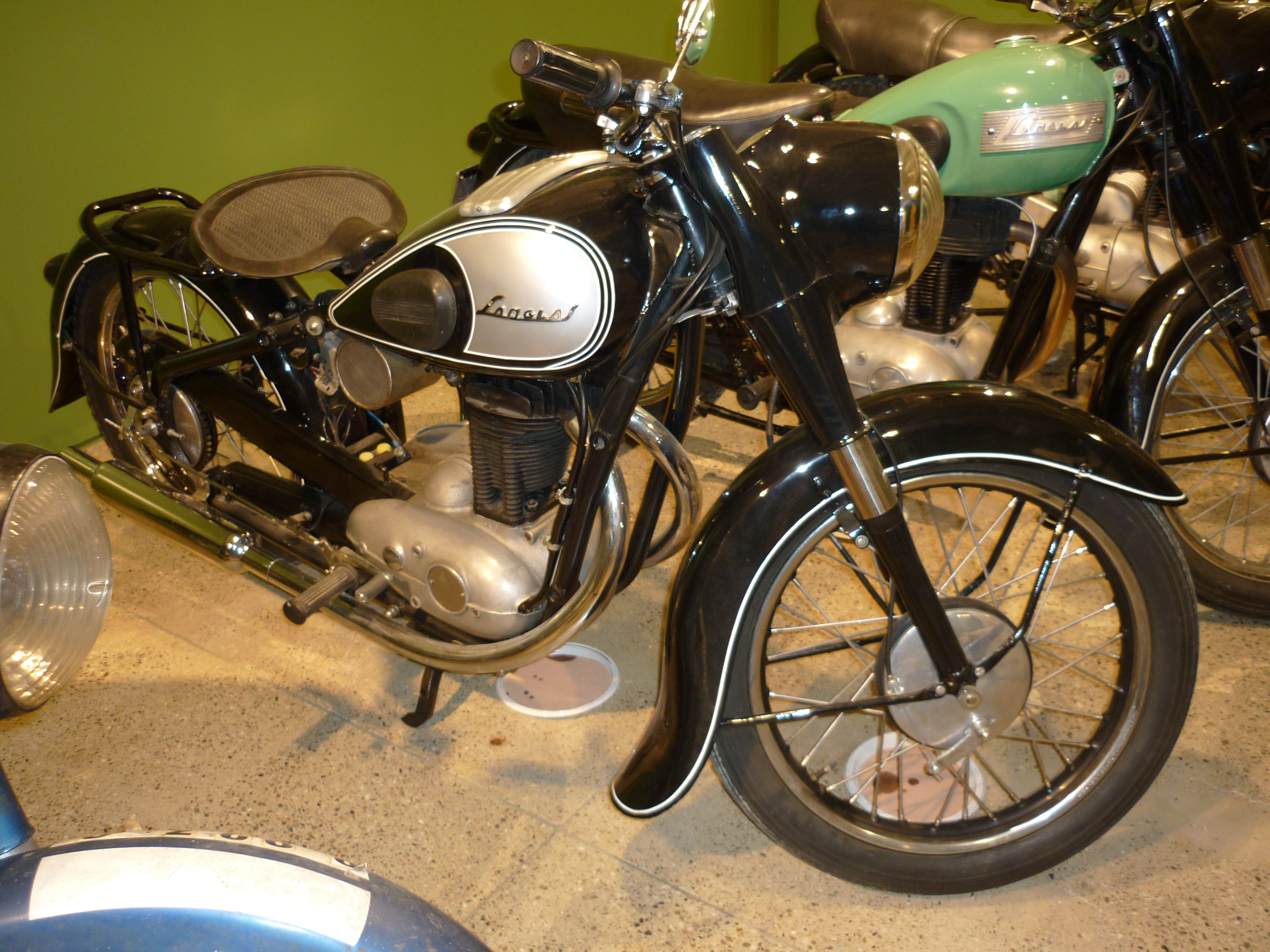 Sanglas 350 (1945-50) restored and set as it was made on 40's. This was the first model made by Sanglas.Museu Industrial del Ter, Manlleu, Catalonia (9 to 21 november 2010)